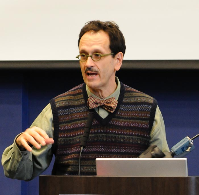 Photo of Gregory Heisler taken while he was giving a talk in Burlington, Vermont.